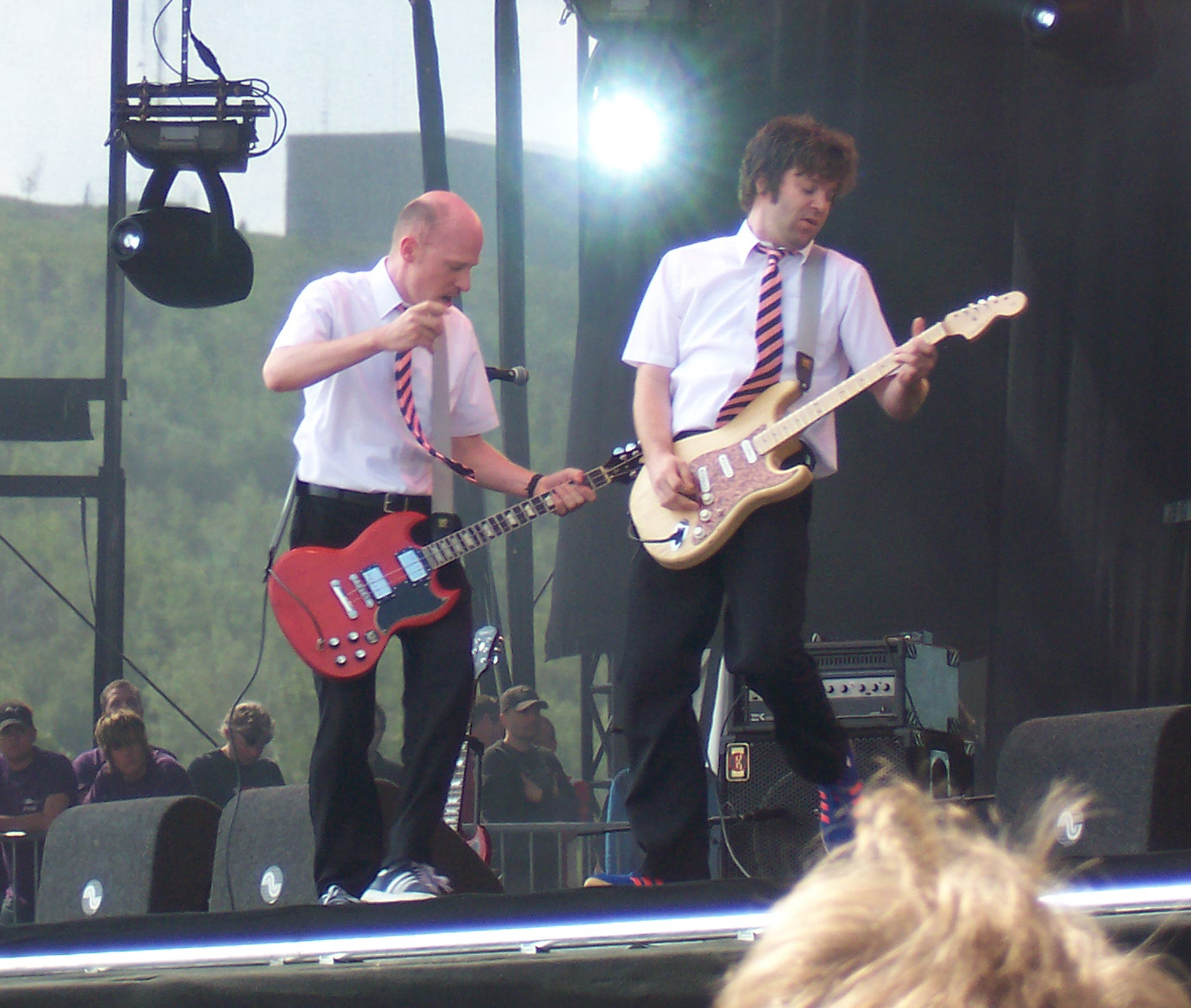 the Presidents of the USA at Pinkpop 2005